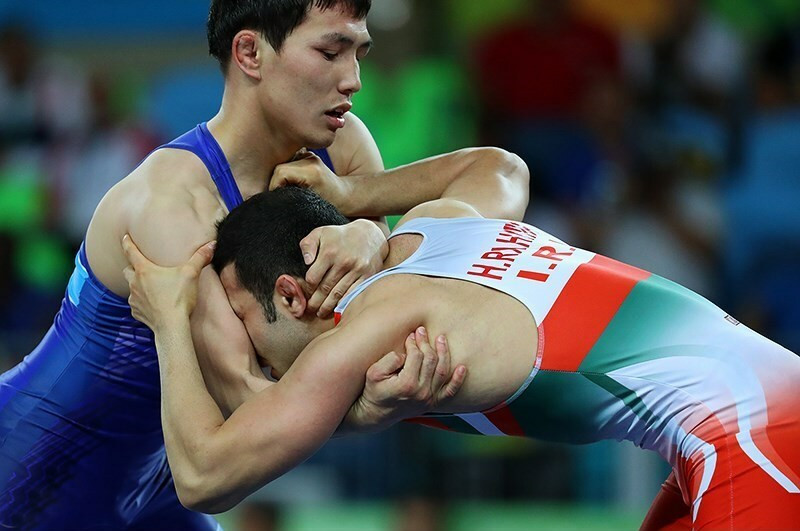 2016 Summer Olympics, Men's Freestyle Wrestling 57 kg. Lebedev (Russia) vs Rahimi (Iran).